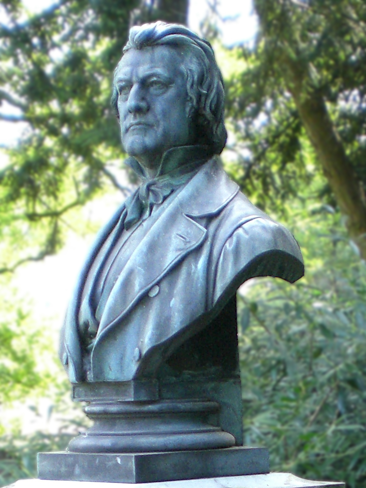 Johann Alois Minnich